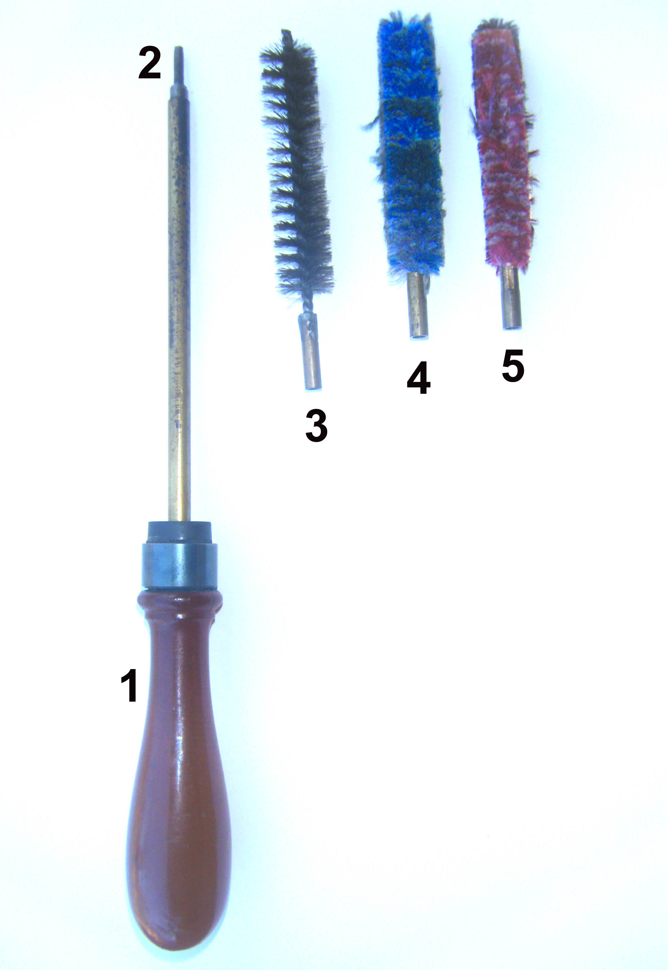 Gun-barrel brush: 1)handle; 2)screw; 3)brush for cleaning; 4) and 5) Brushes for cleaning and lubricate the barrel.